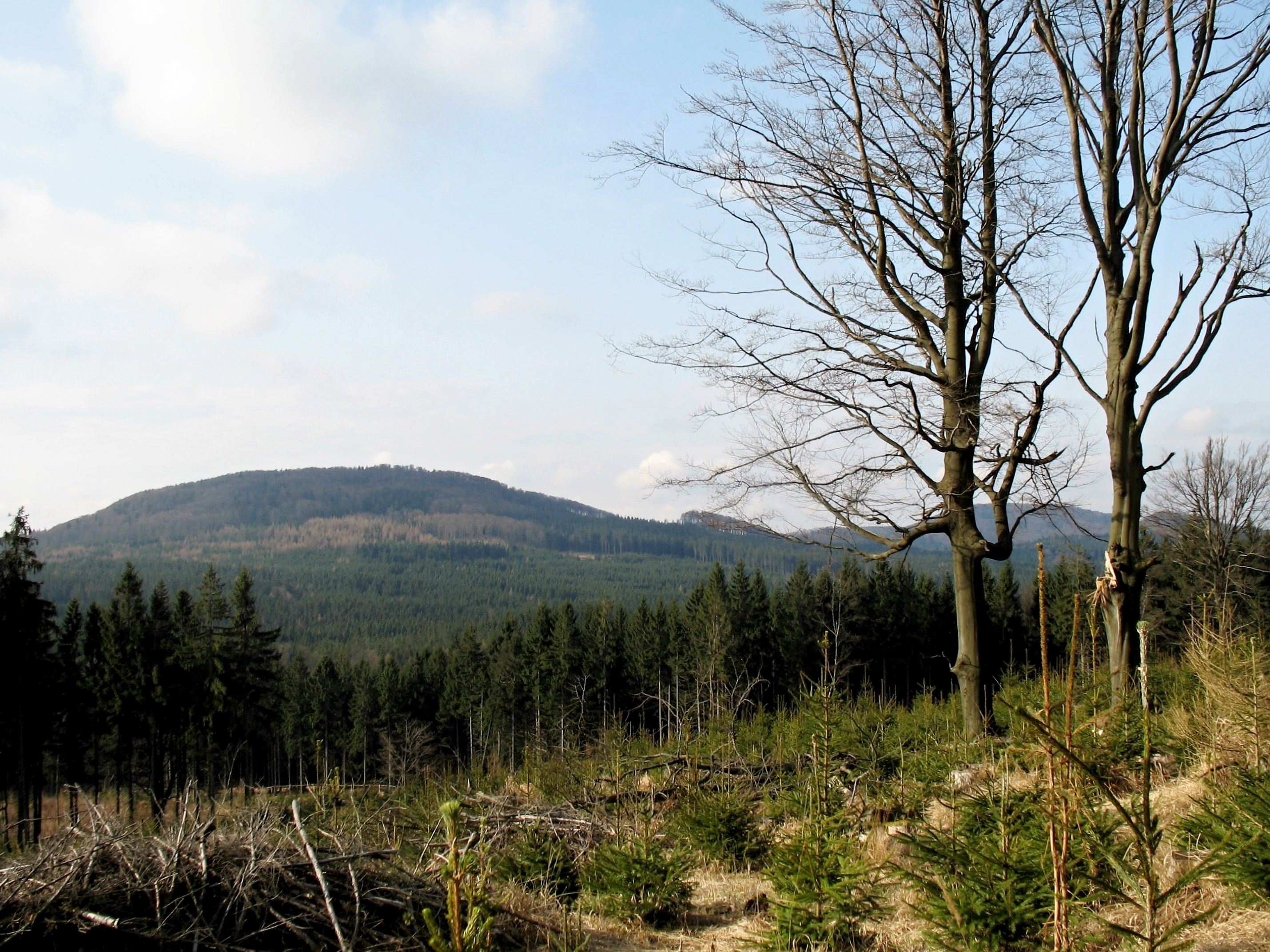 Stožec in Lusatian Mountains, Czech Republic